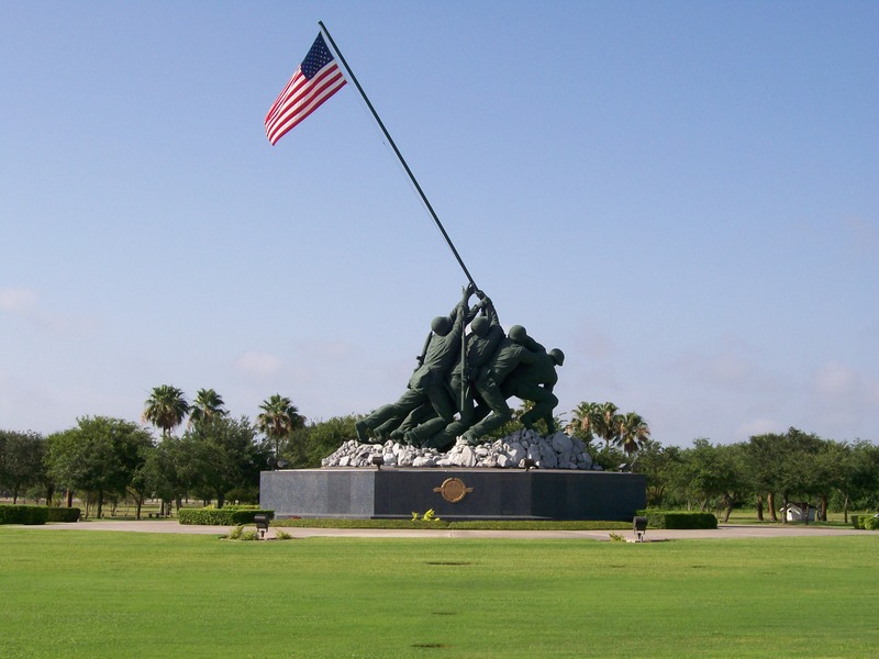 Me, my camera